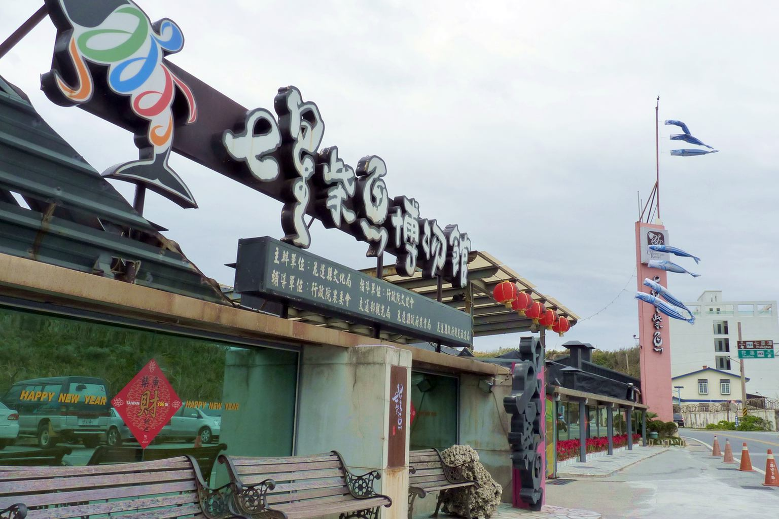 The Chihsing Tan Katsuo museum and former fish-flake factory in Hualien, Taiwan